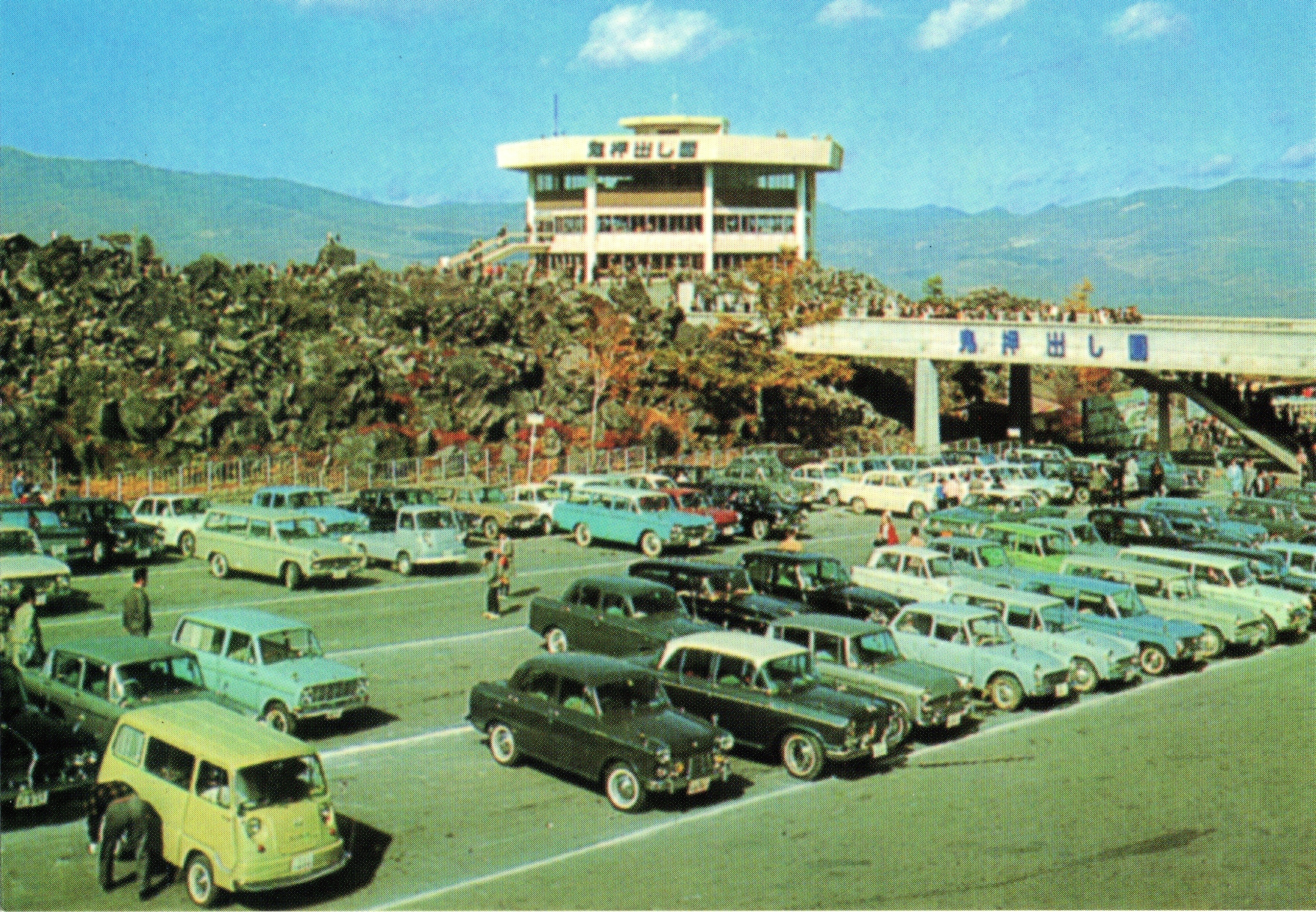 How many cars can you identify in this picture? Green estate at the back is a Toyopet Tiara. The blue and white one with the white walls is a Nissan Cedric. Also a Cony 360, Subaru Sambar, Toyota Publica station wagon, early Datsun, a Prince....